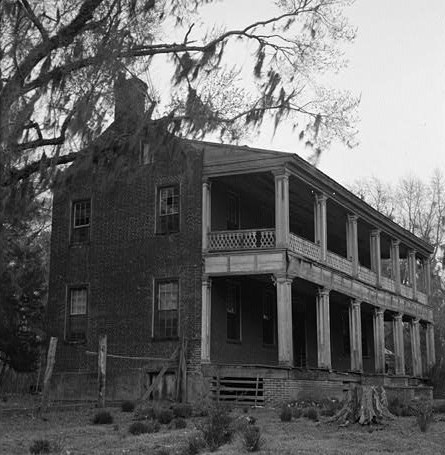 Oakland, Cape Fear River & Route 21, Elizabethtown vicinity (Bladen County, North Carolina)